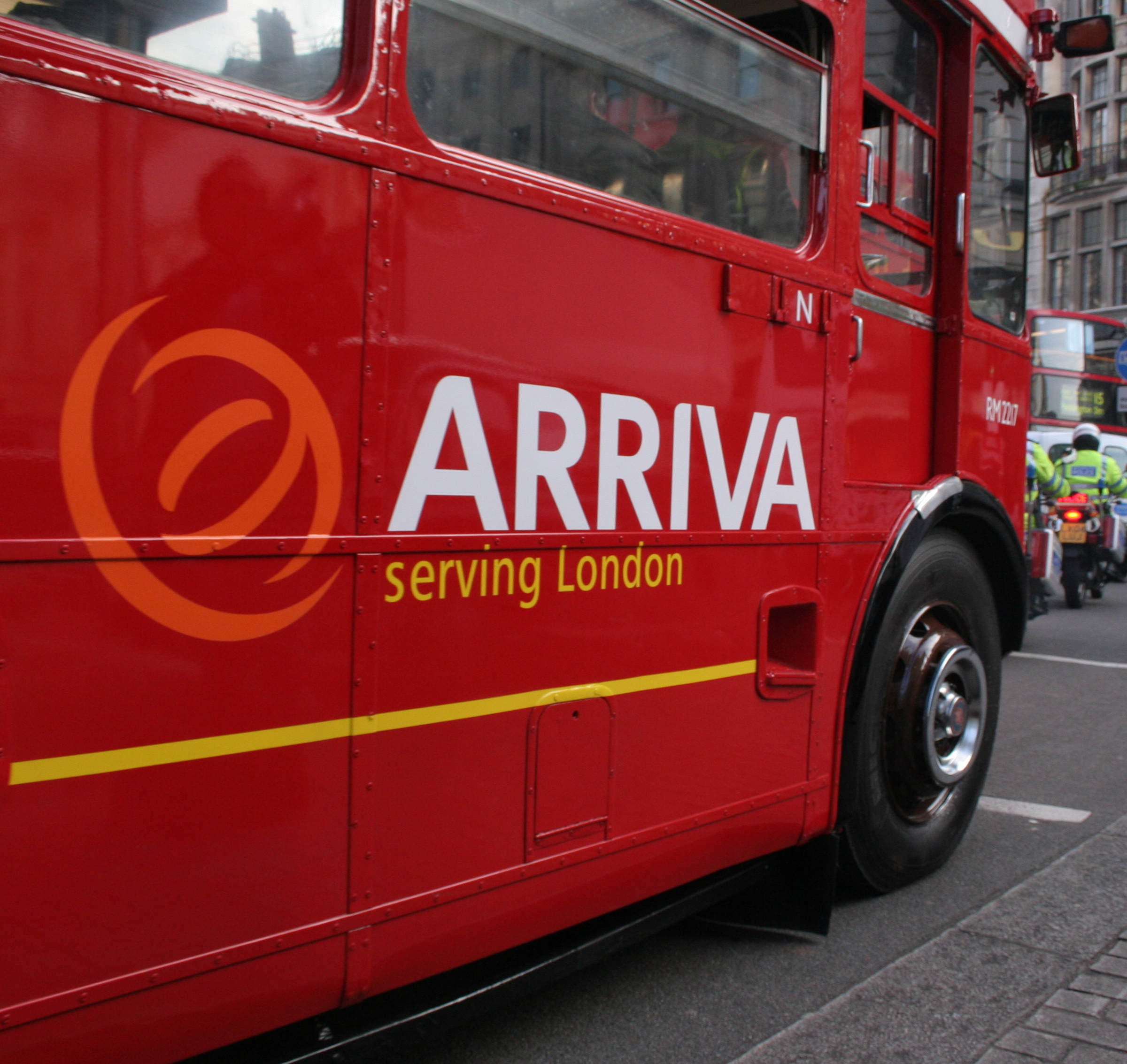 The off-side of Arriva London special purposes fleet Routemaster bus RM2217 (reg. CUV 217C), operating London Buses route 159 on the last day of non-heritage Routemaster operation in London. As part of the special fleet, RM2217 was chosen to operate the official last Routemaster journey on the day, preceeded by two duplicates, operated by red RM5 and gold RM6 also drawn from the special fleet. This last service was to be a run from Marble Arch to Streatham Hill, Telford Avenue, a short working of route 159 terminating at the last stop before Arriva's Brixton bus garage, rather than the usual terminus of Streatham Station. With RM5 and then RM6 leaving a few minutes ahead of it, RM2217 was due to leave at 12.10. It's pictured here operating the last service, at the bottom of Haymarket in Westminster, heading south. Due to the public interest in the event, the journey had a police motorcycle escort to keep the bus moving and the road clear. They're just visible in this shot.